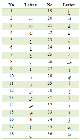 Table showing all 36 printable Arabic letters